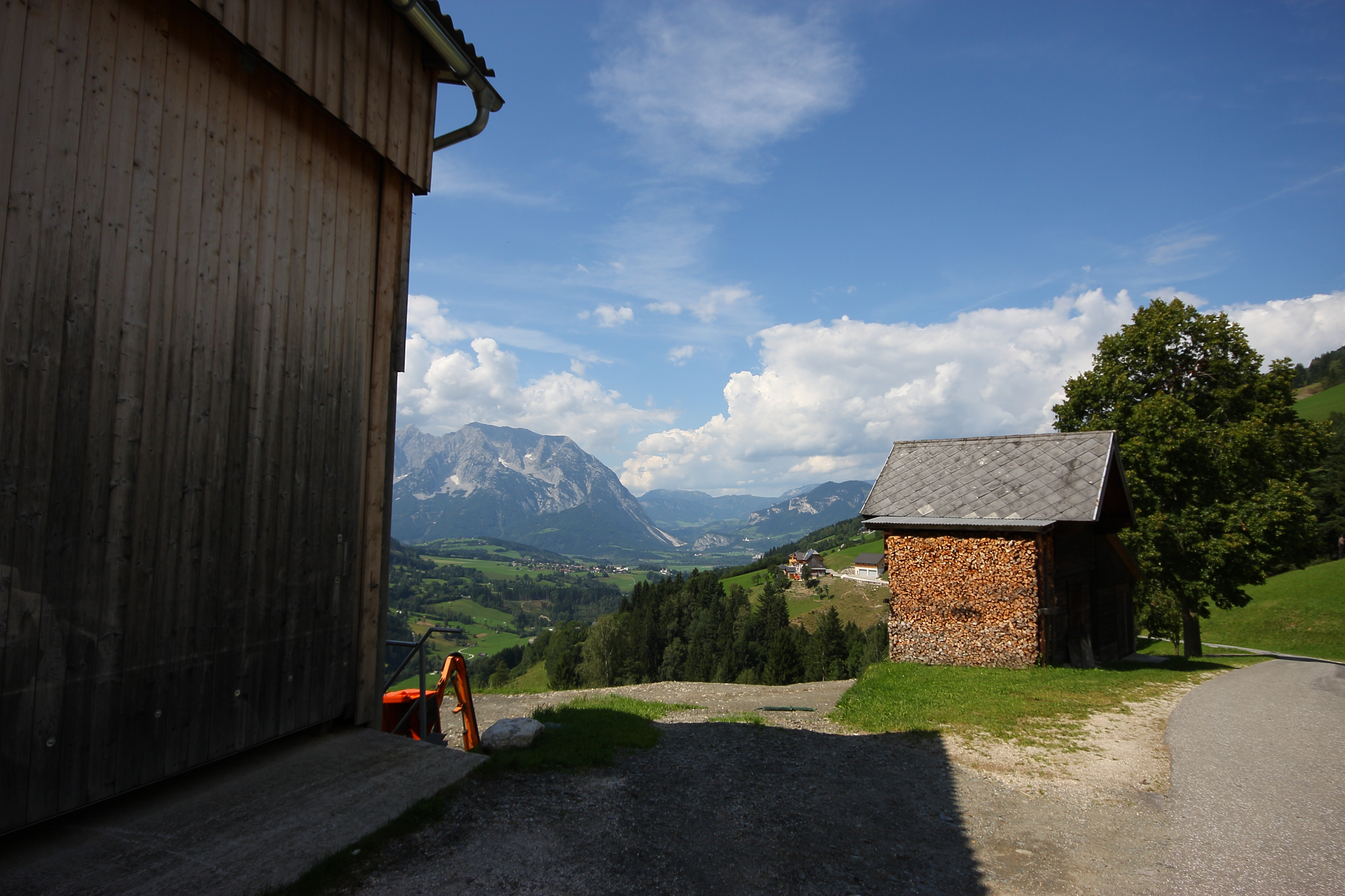 farm, Angerer , Erlsberg, Styria, Austria